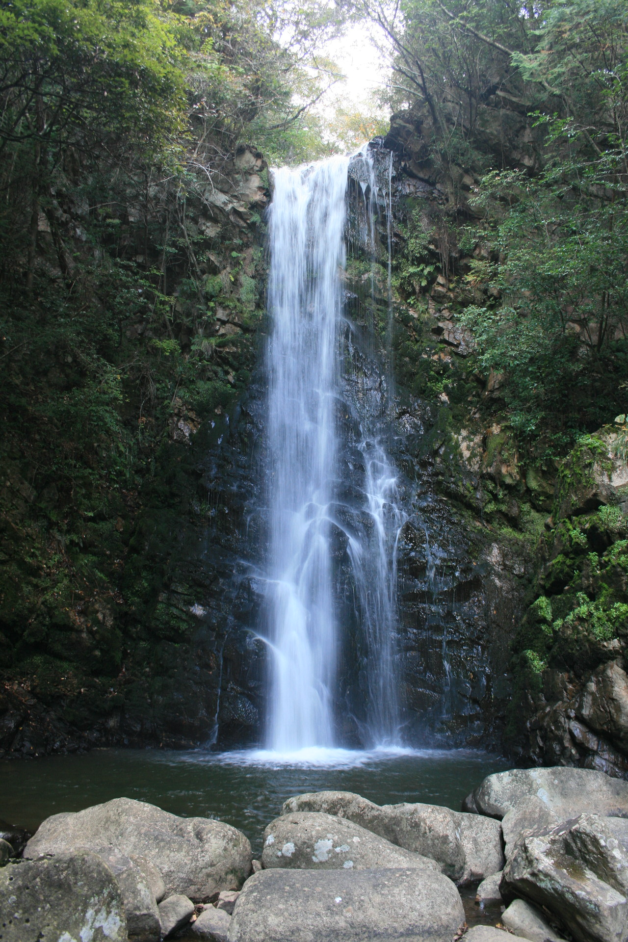 Ryugin_Falls